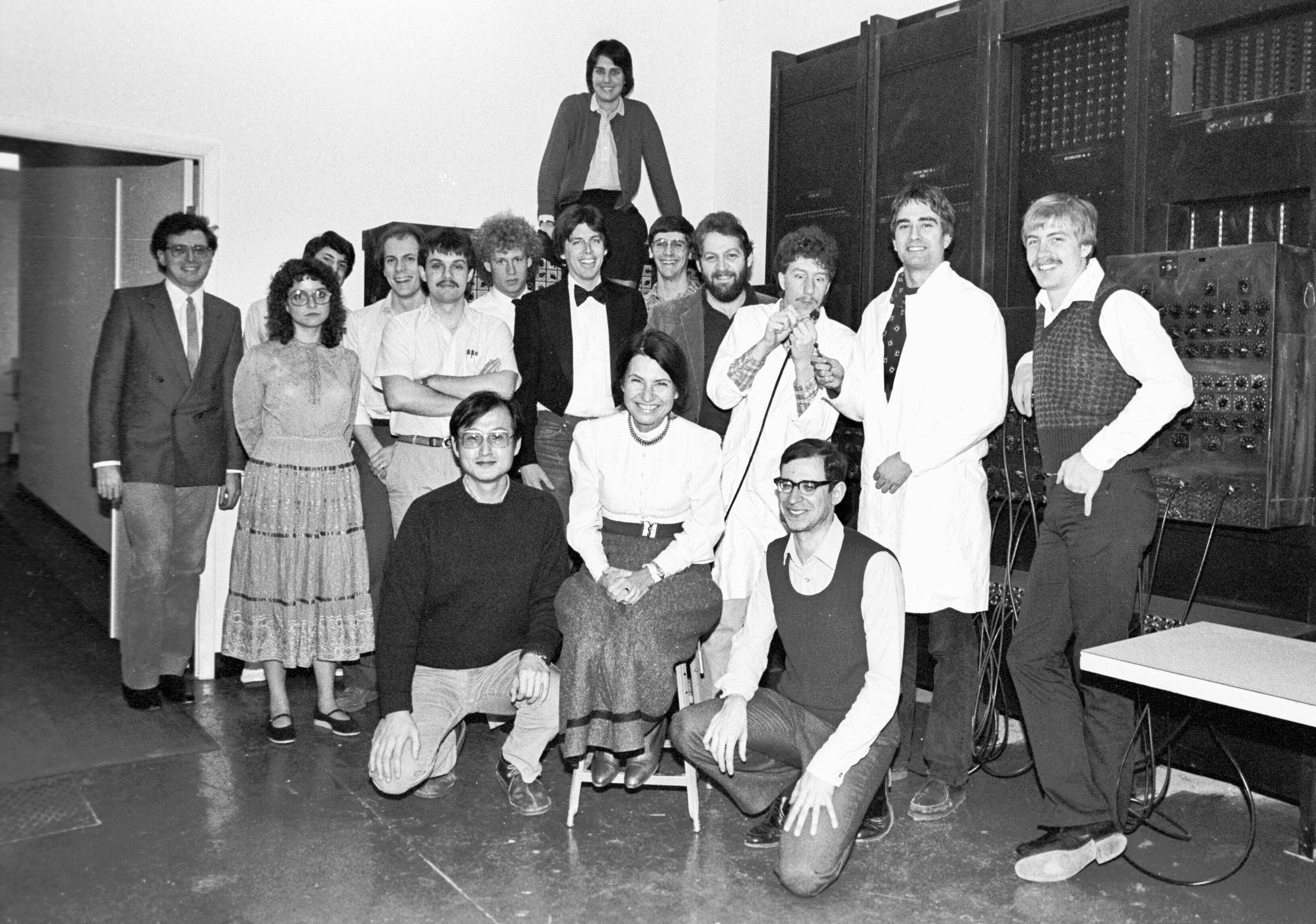 Prof. dr. Ruzena Bajcsy with her students in the GRASP Lab at UPenn in front of the ENIAC computer